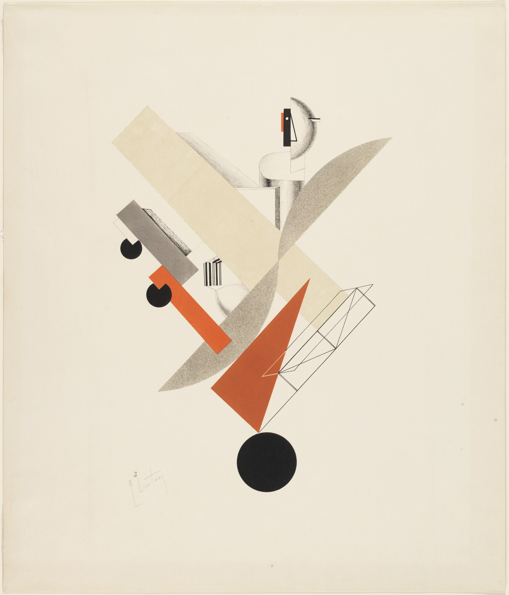 Costume for opera "Victory over the Sun" - The Time Traveler.